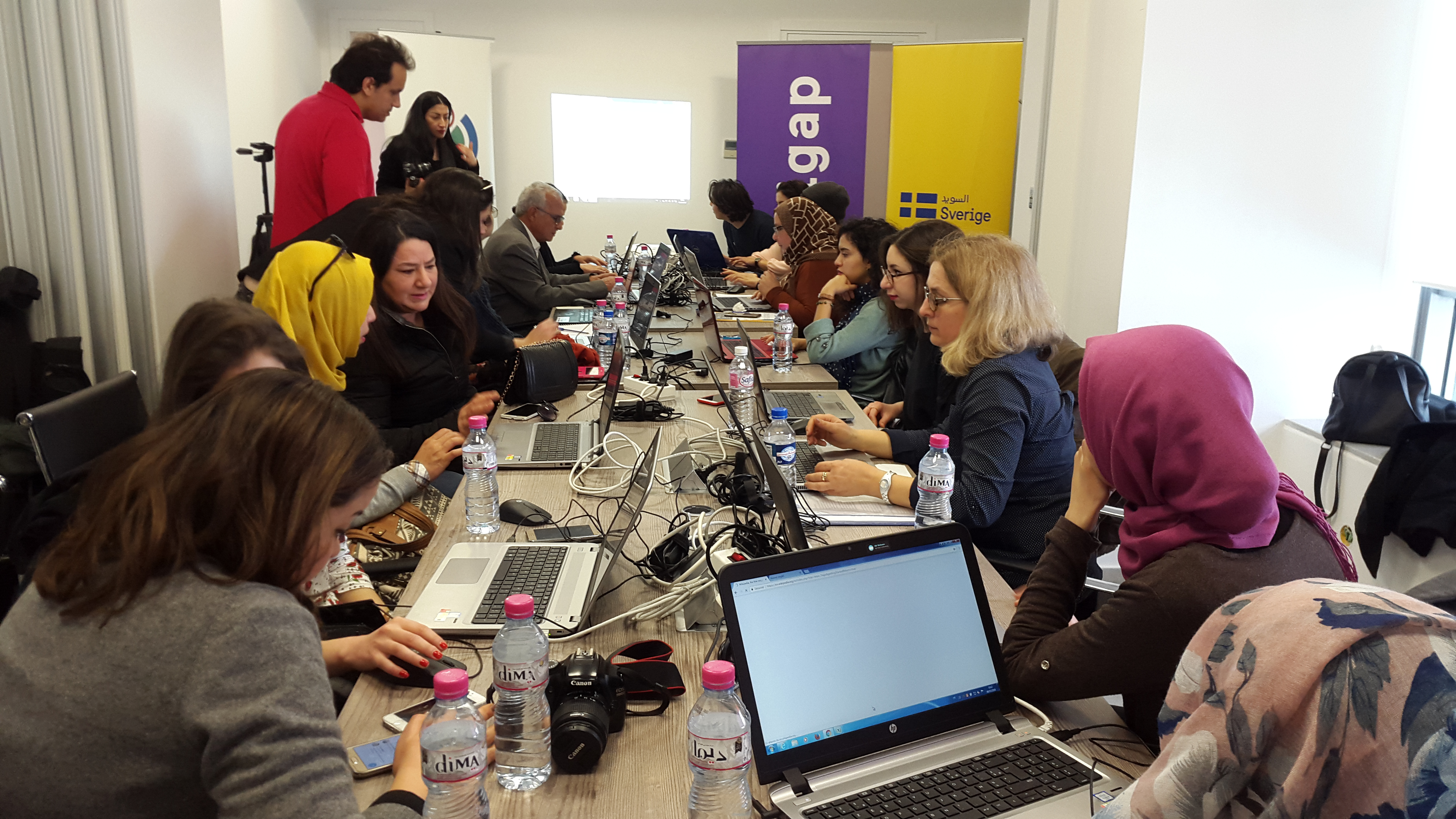 journée wikigap tunisia, International Women's Day, March 2018.